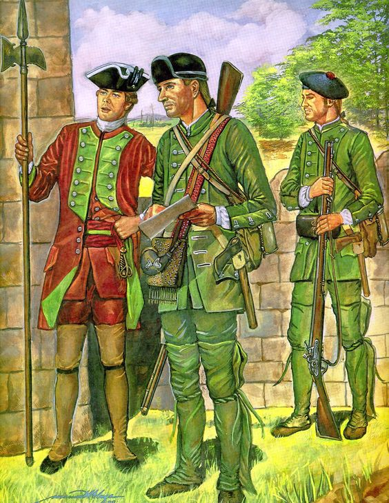 Painting of Rogers Rangers, "To Range the Woods", New York, 1760